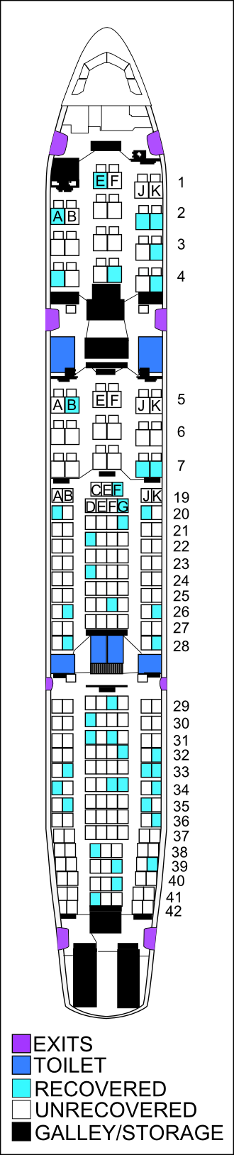 Seating chart Air France Flight 447 indicating bodies recovered in the 2009 searches (English)